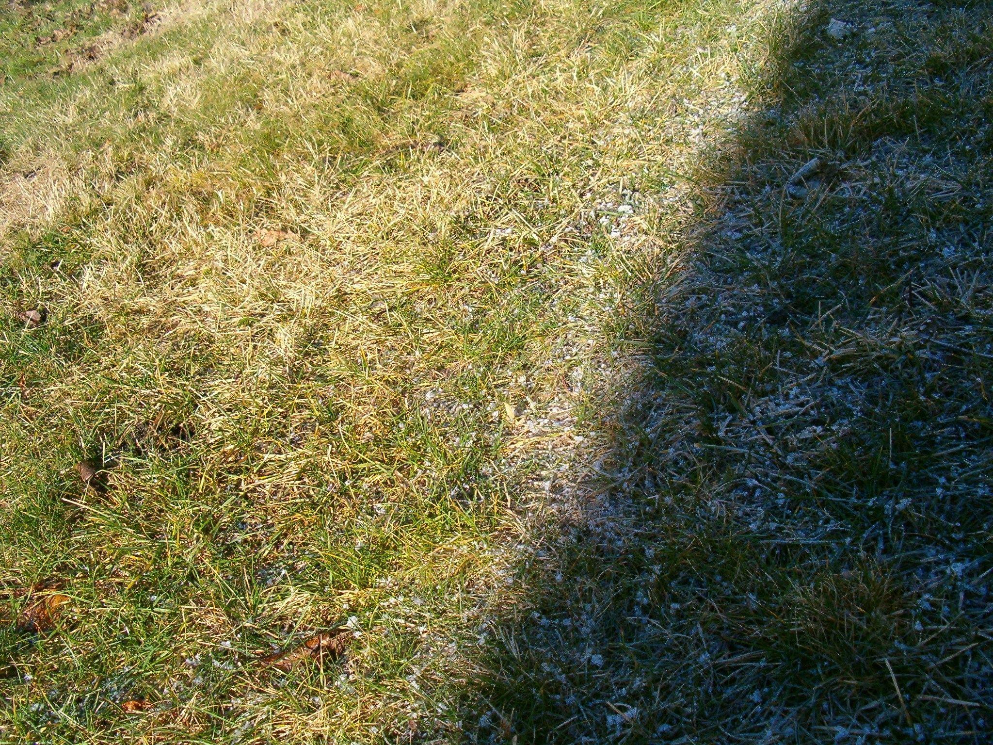 Hoarfrost melting in the sun, and prevailing in the shadow